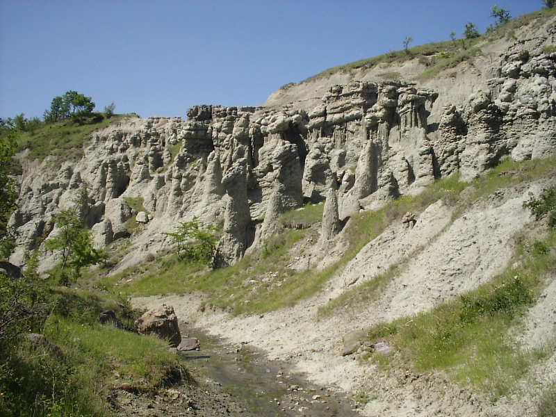 Earth pillars in Kuklica